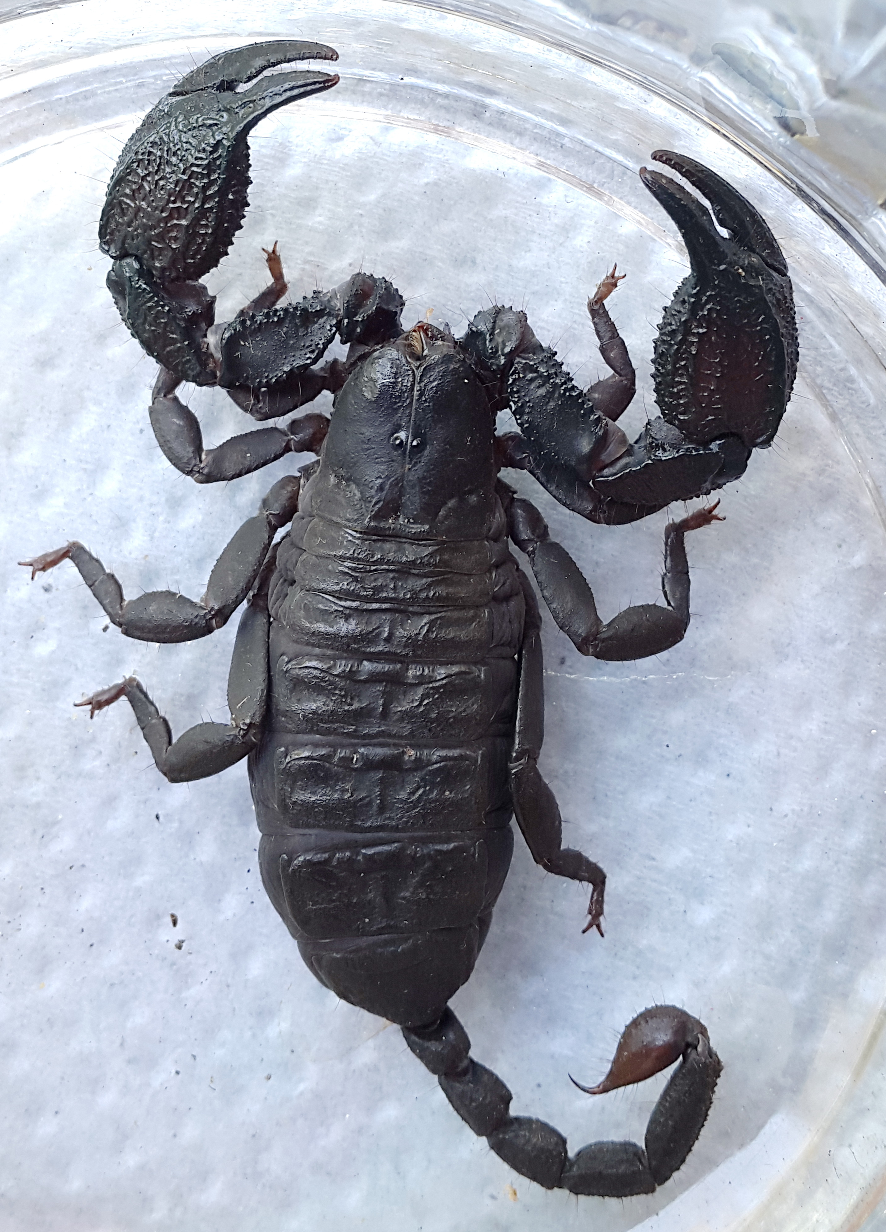 Opisthacanthus capensis - Nature's Valley, South Africa